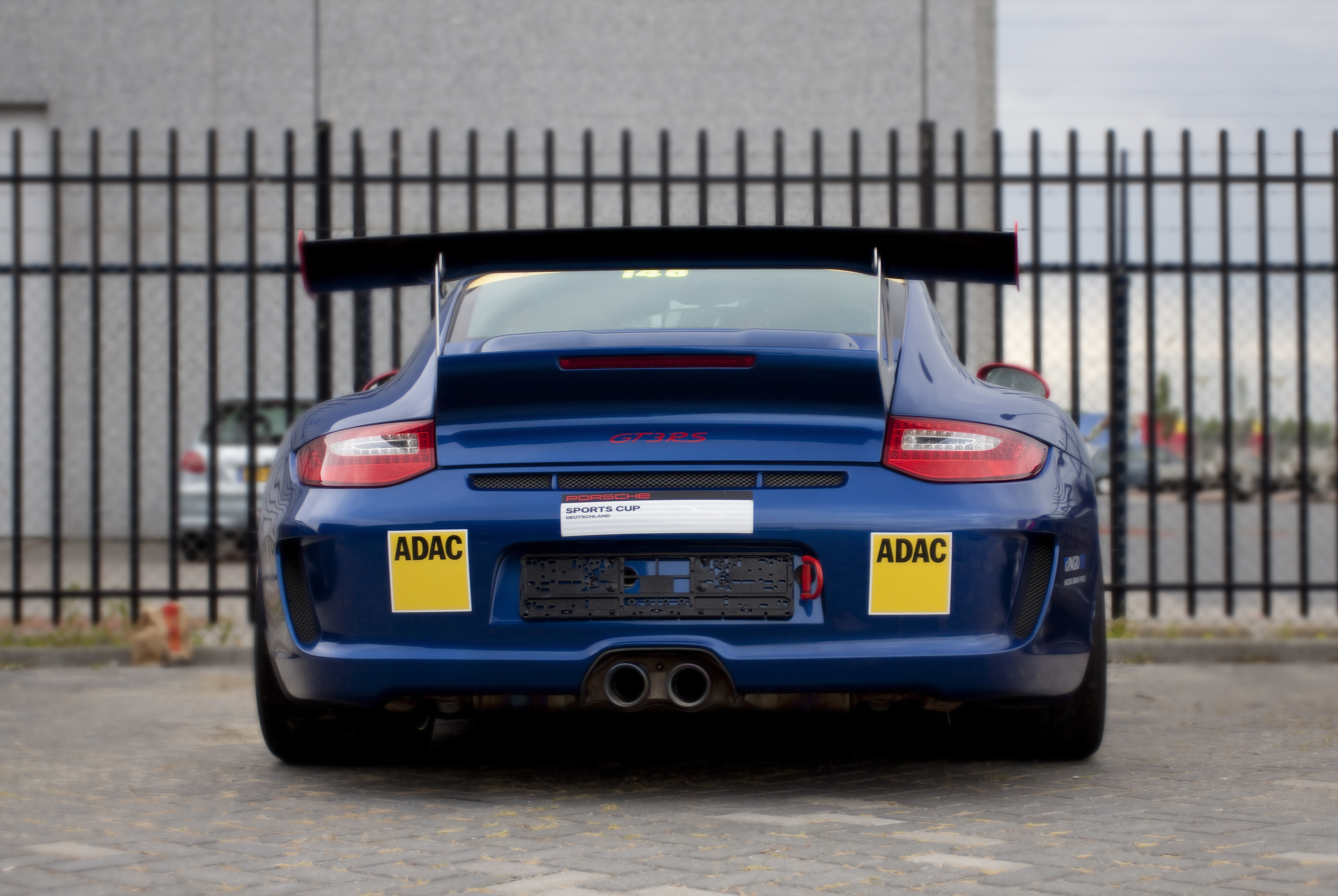 Rear view of a blue Porsche 997 GT3 RS 3.8 with stickers from the ADAC and Porsche Sports Cup Deutschland.997 GT3 RS